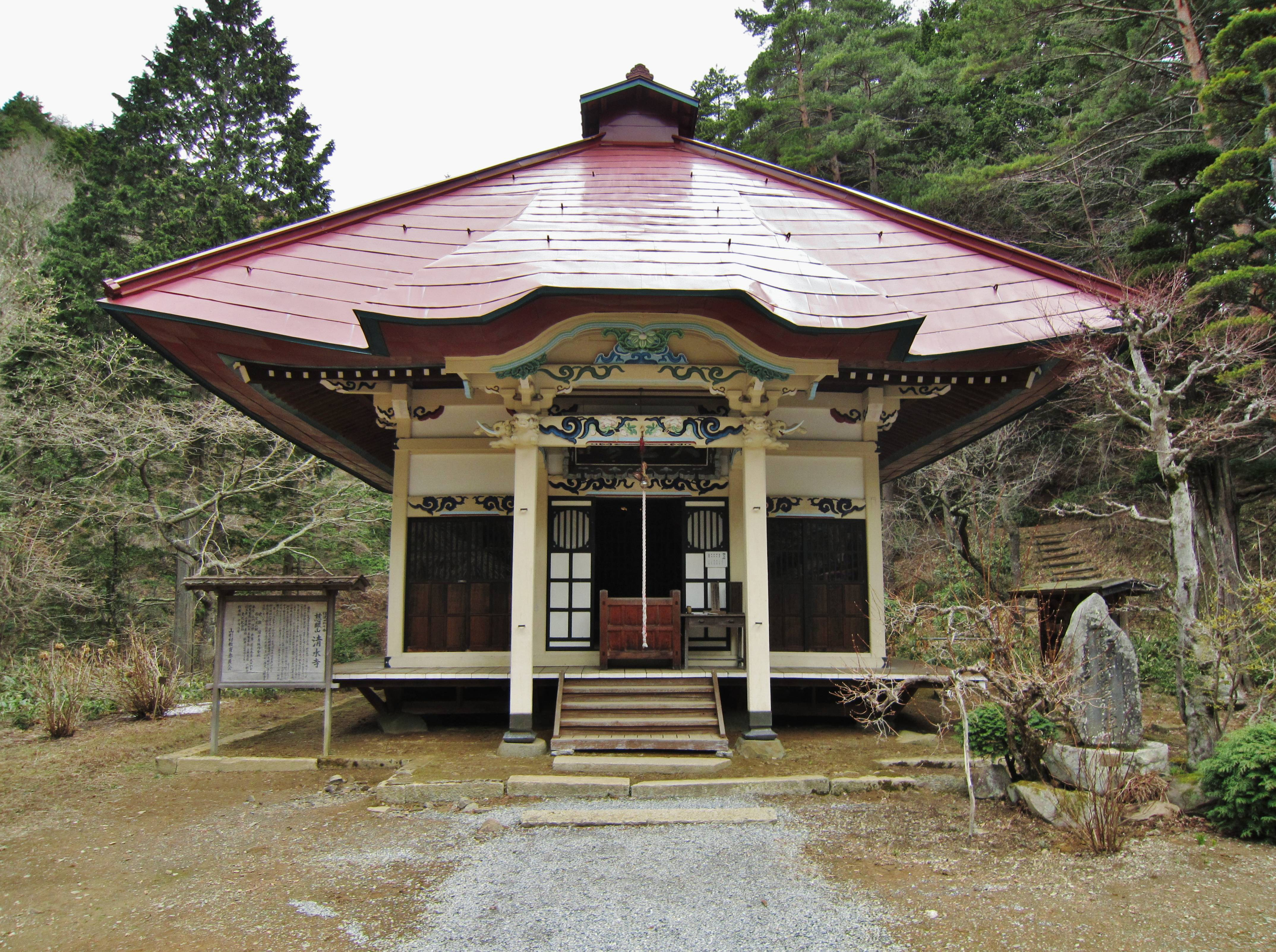 Kiyomizu-dera (Yamagata, Nagano) Hondō.